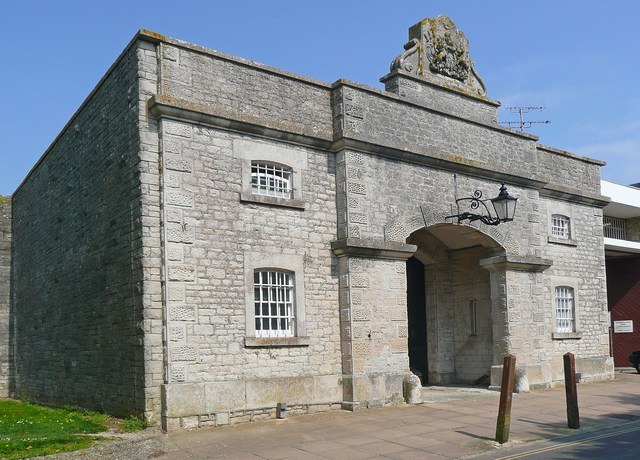 Entrance to The Grove Prison Built in 1848 to house prisoners who were put to work building the breakwaters and St Peter’s Church. Was an adult prison from 1848; a Borstal from 1921; and a Young Offenders Institution from 1988.